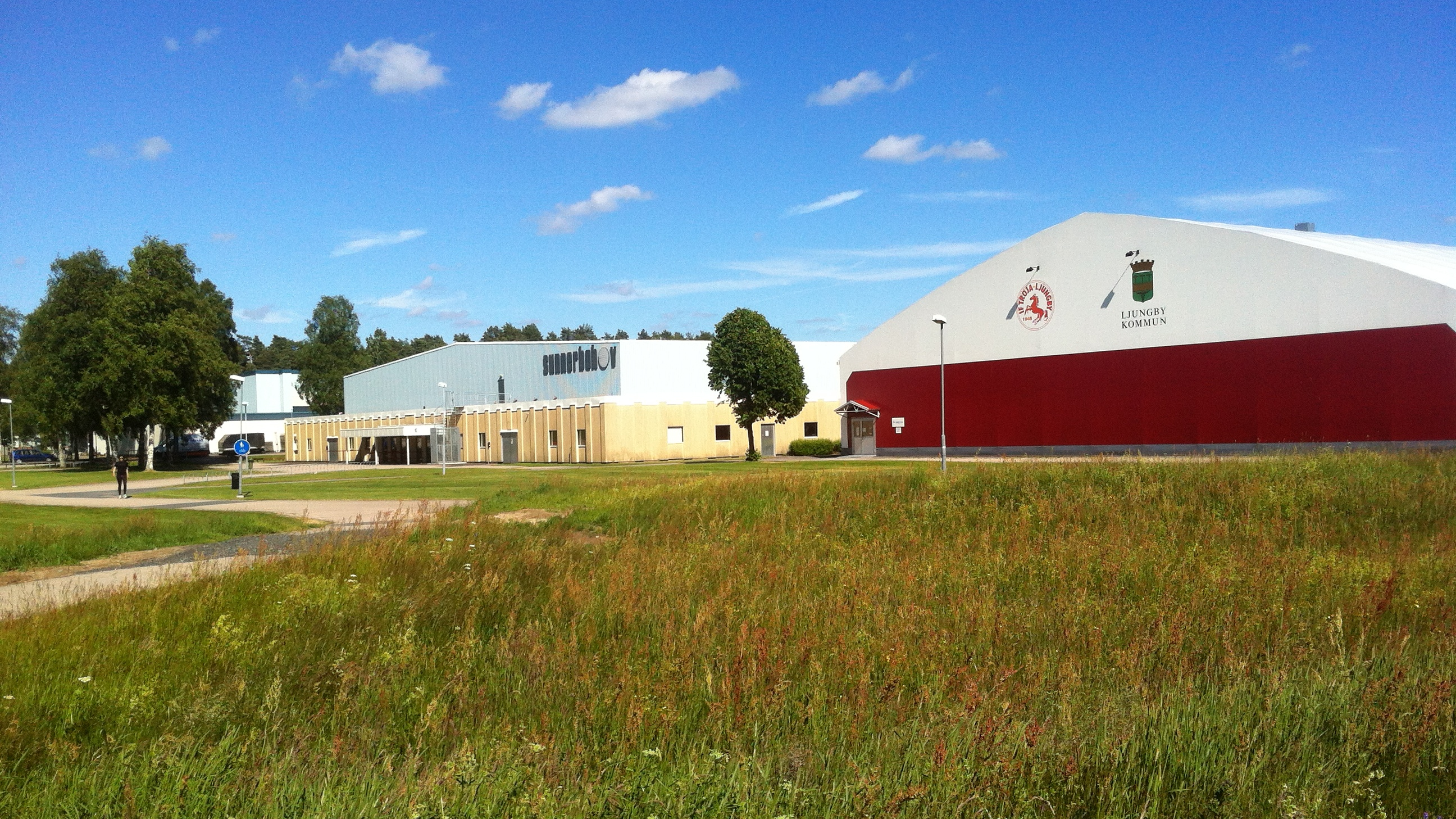 Sunnerbohov hockey hall with its covered training rink at its side. Home arena for Troja Ljungby.